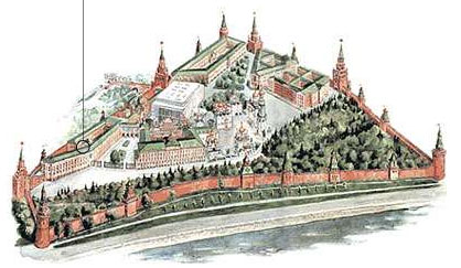 Overview map of the Moscow Kremlin. Location of The Armoury marked.